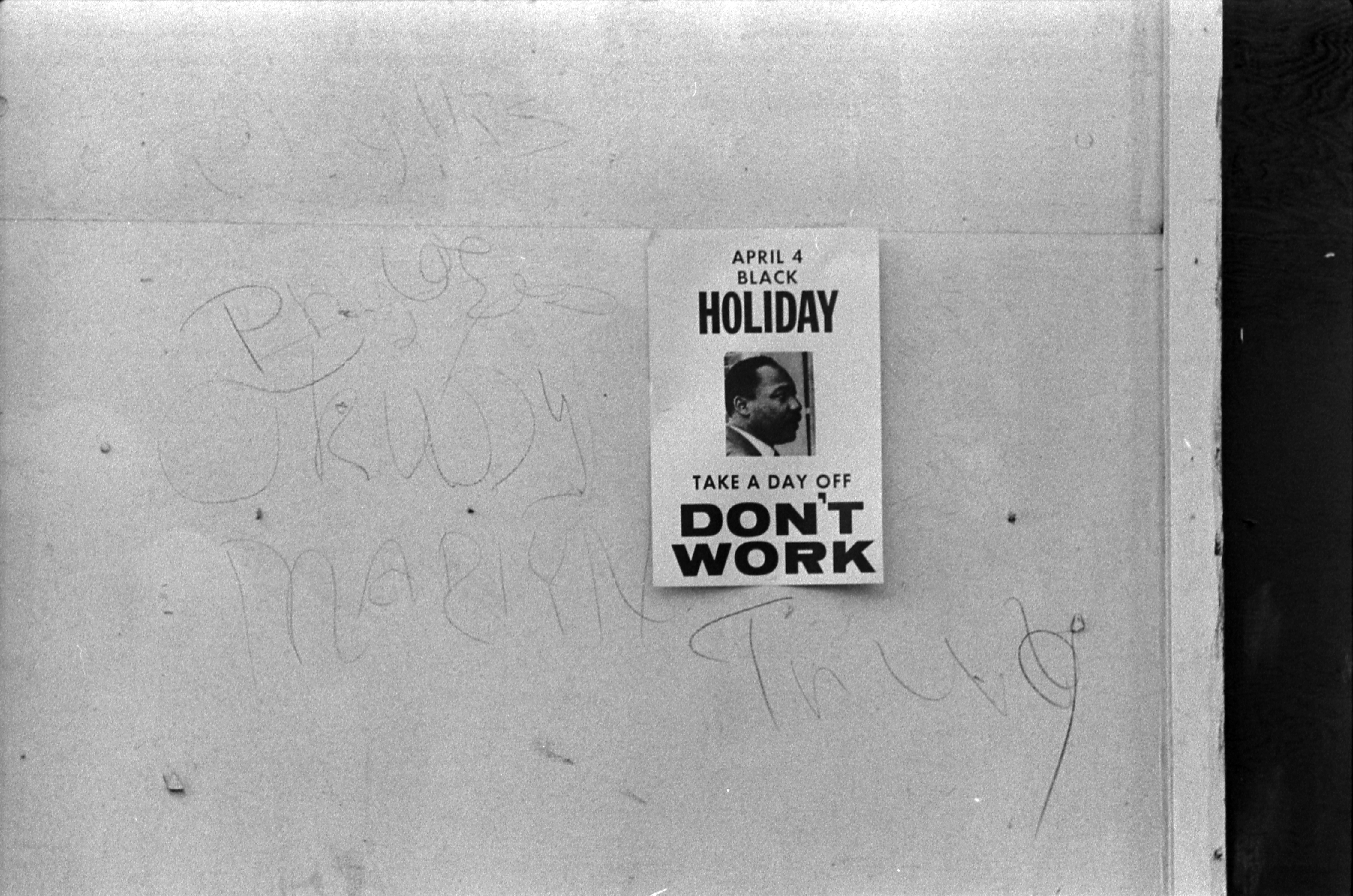 "Don't Work" sign promoting a holiday to honor the anniversary of the assassination of Martin Luther King, Jr., on a shop on H Street, N.W., Washington, D.C.